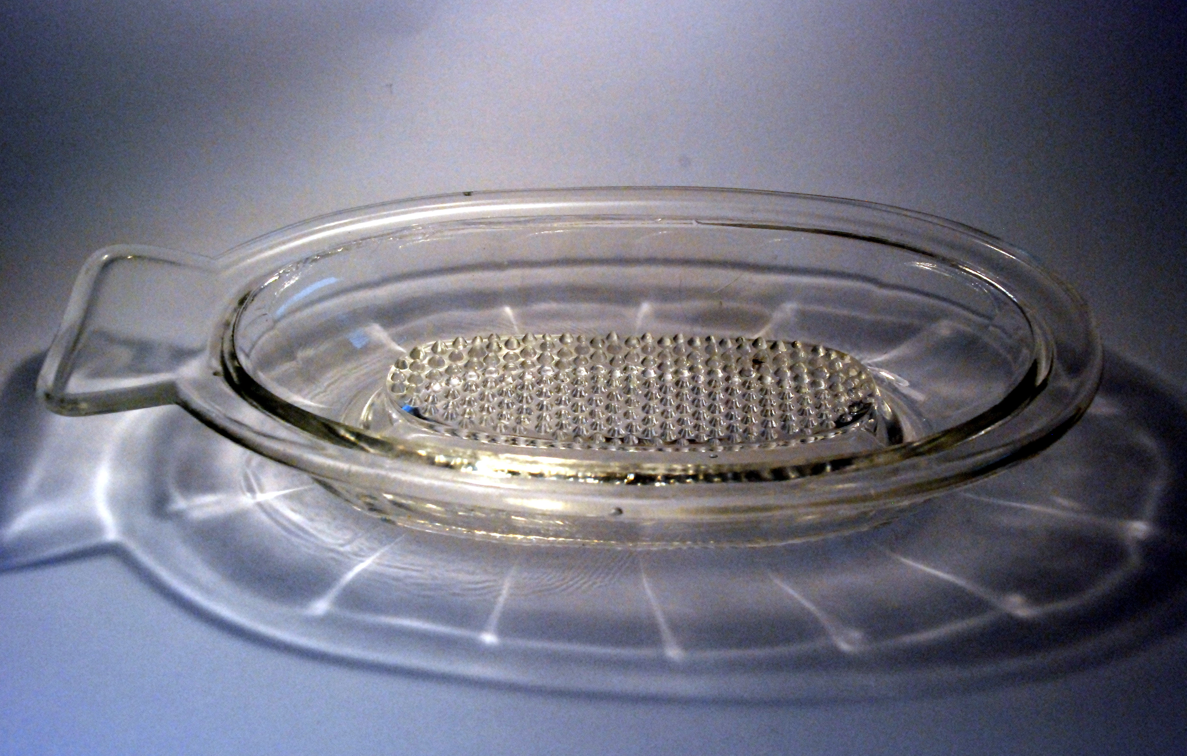 grater made of glass (e.g. for apples)